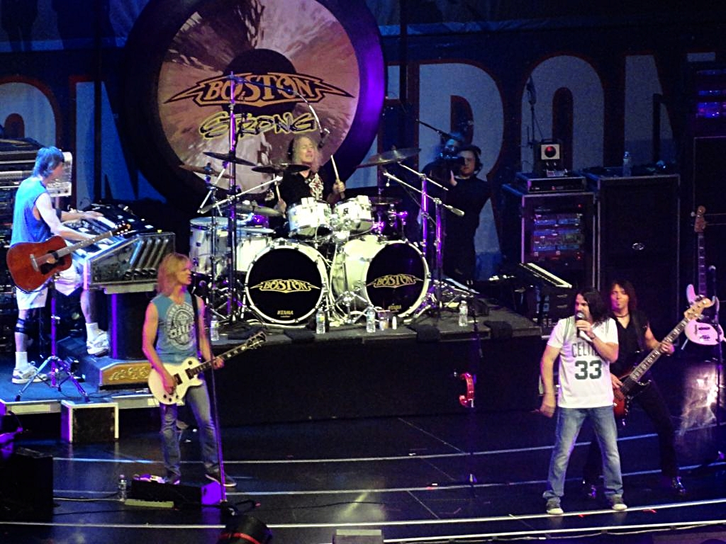 BOSTON--At the TD Garden: Boston, Mass.--an all-star lineup performed a benefit concert for the victims of the Boston Marathon terrorist attack in April 2013. The band's name is Boston.